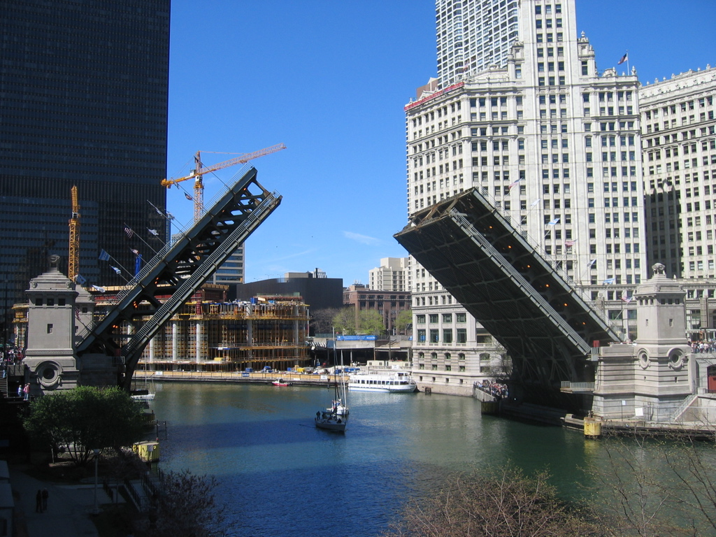 The Michigan Avenue Bridge over the Chicago River, Chicago, Illinois.